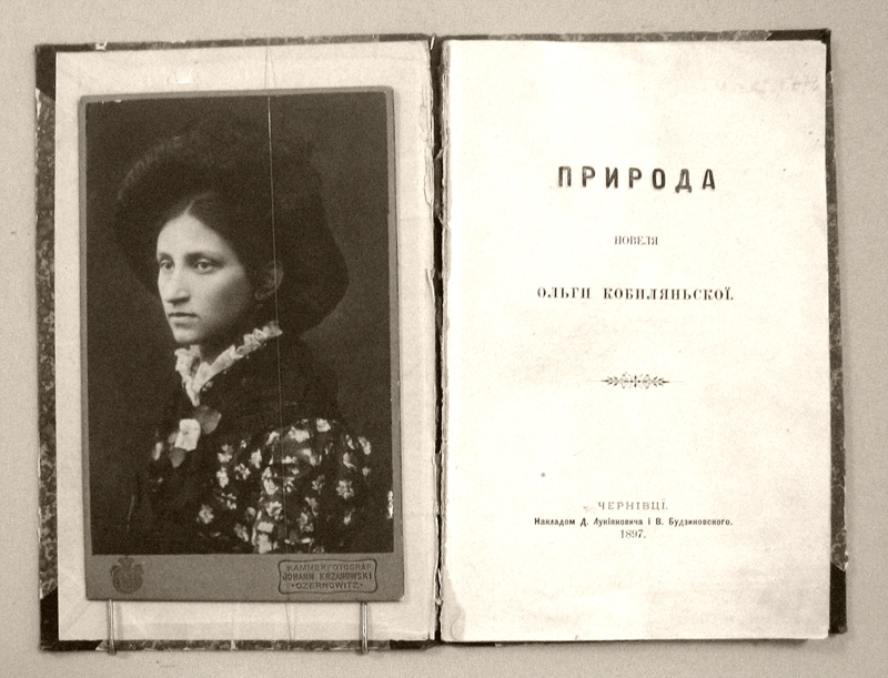 Olha Kobylianska